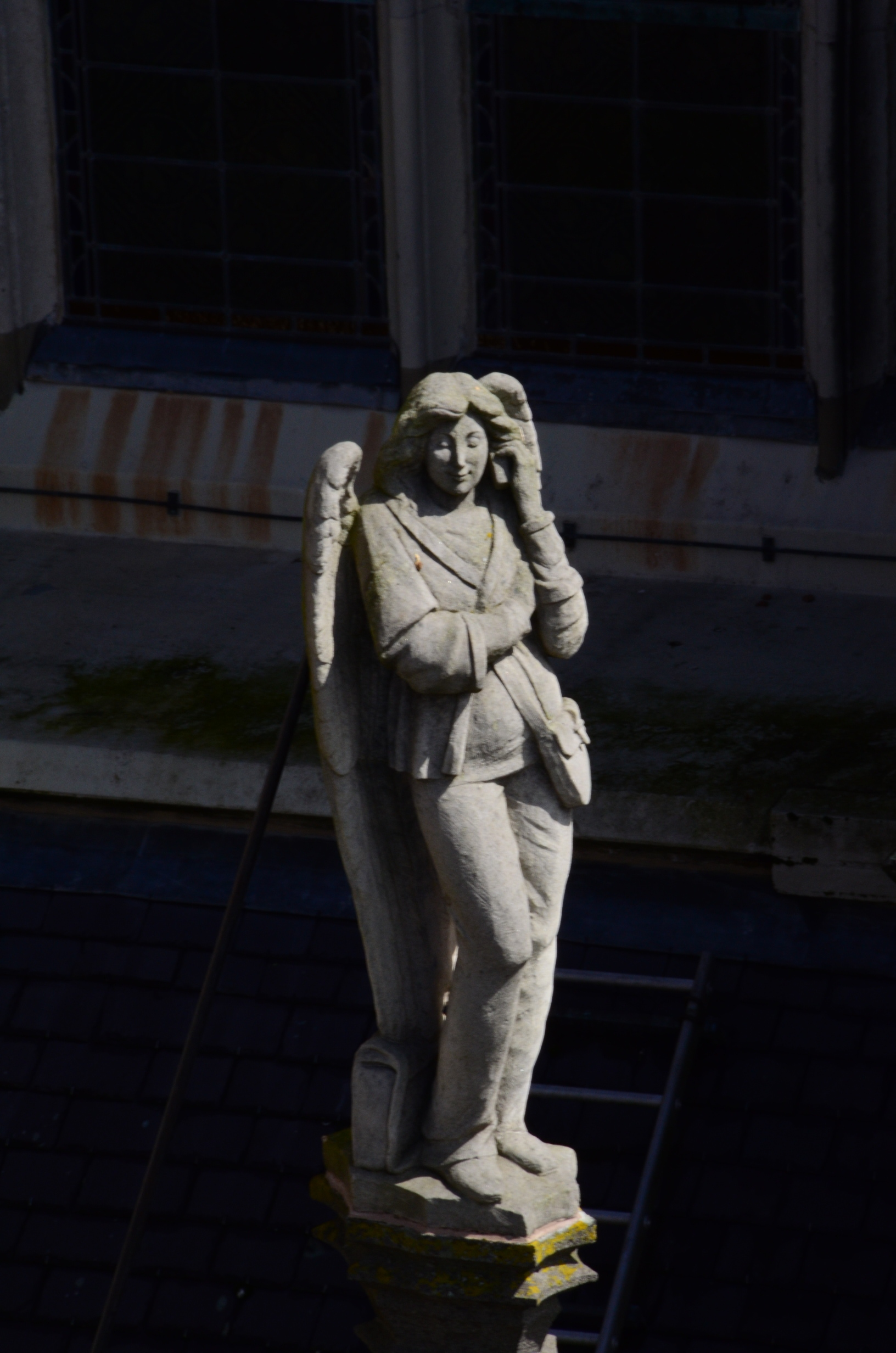 Den Bosch St. Jan's kathedraal/Cathedral